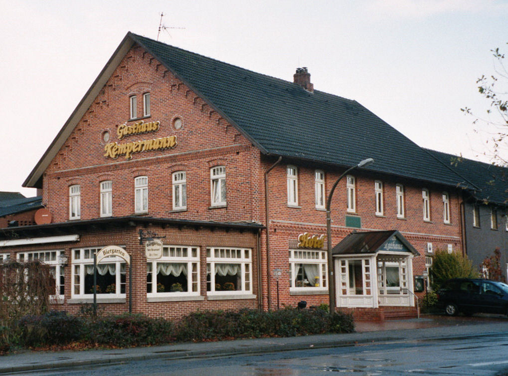 Gasthaus Kempermann